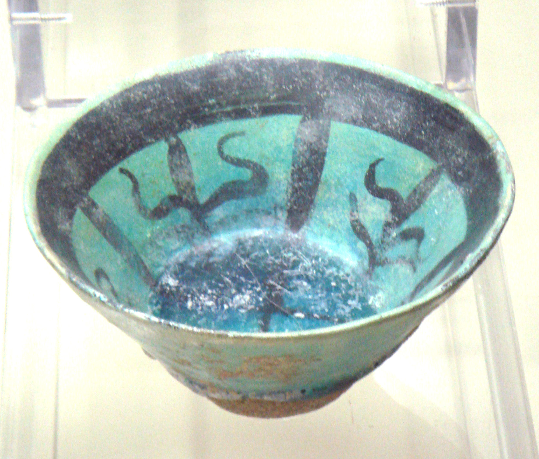 Lustreless_bowl_Iran_Seljuq_period_13th_century.